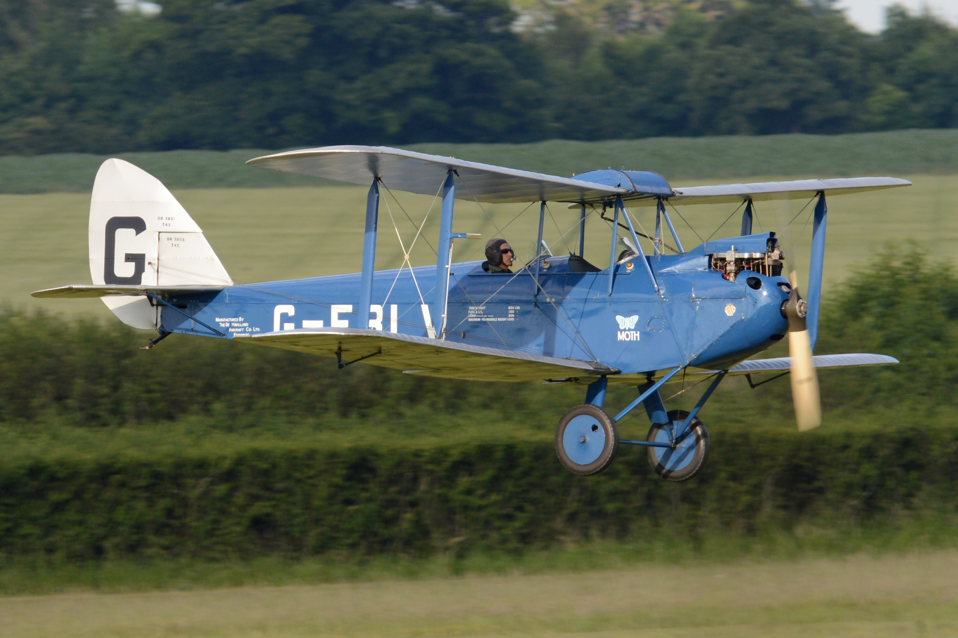 c/n 188. Built 1925. Owned by BAE Systems but operated by the Shuttleworth Collection. Seen landing after displaying at the collections Evening Airshow, Old Warden, Bedfordshire, UK. 17th June 2017.